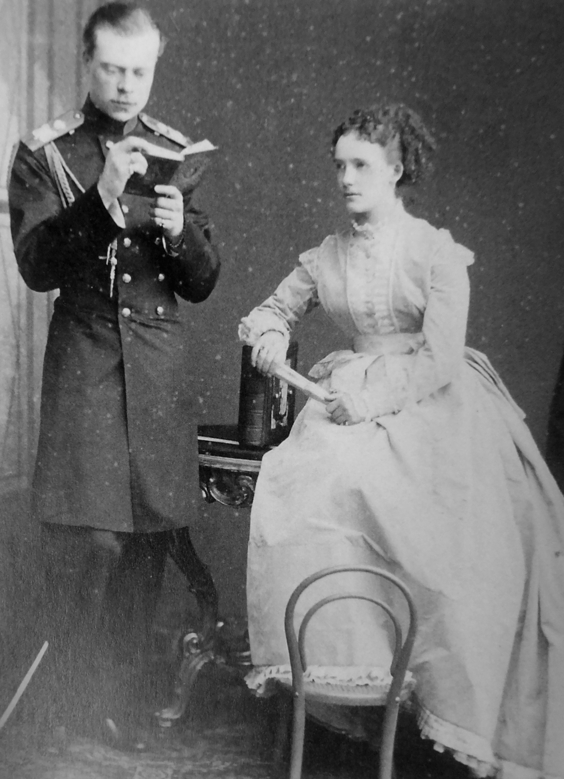 Eugenia of Leuchtenberg and her husband Duke Alexander Petrovich of Oldenburg